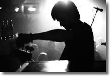 Johnny Temple playing live with "Girls Against Boys"